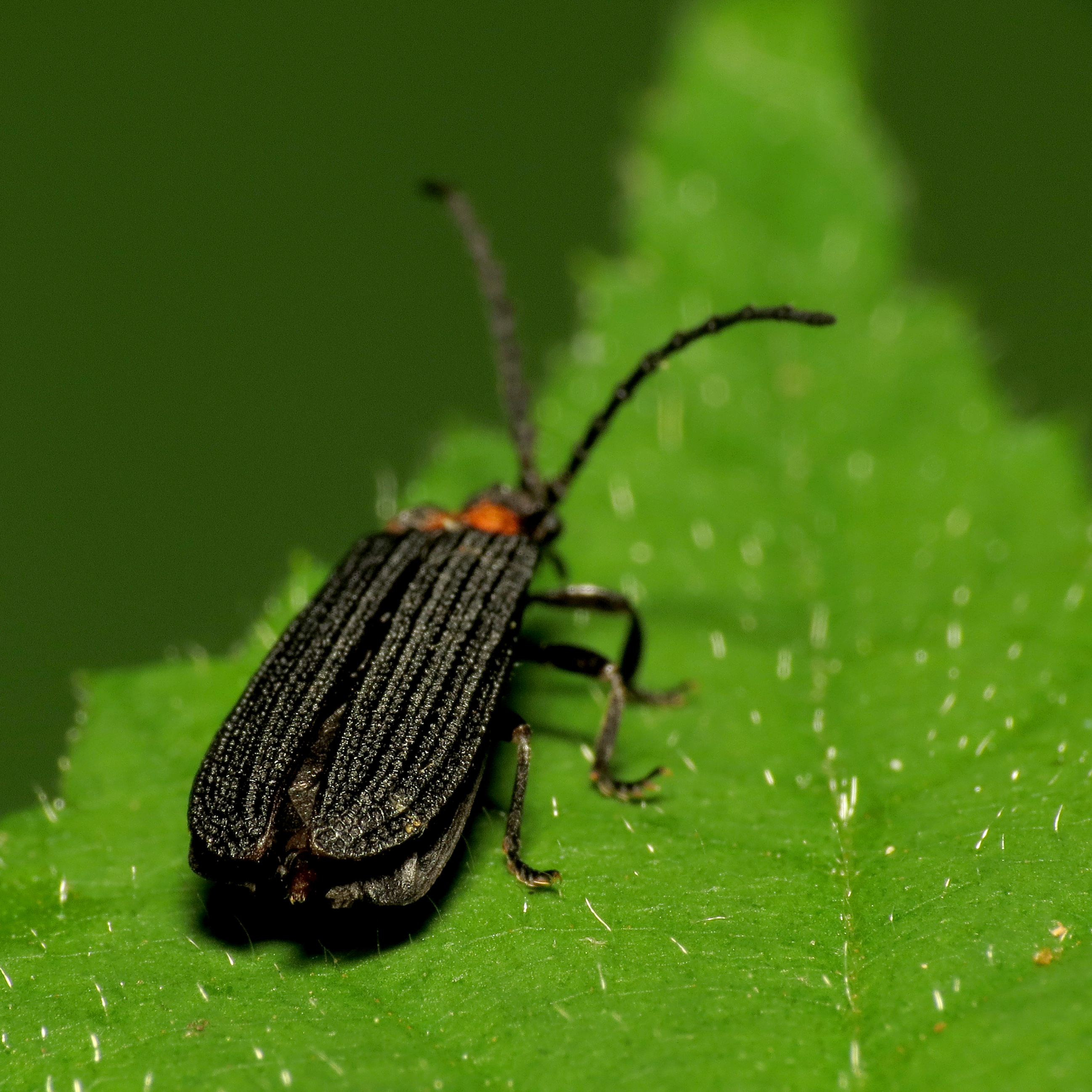 Lopheros fraternus. Rock Creek Park, Washington, DC, USA